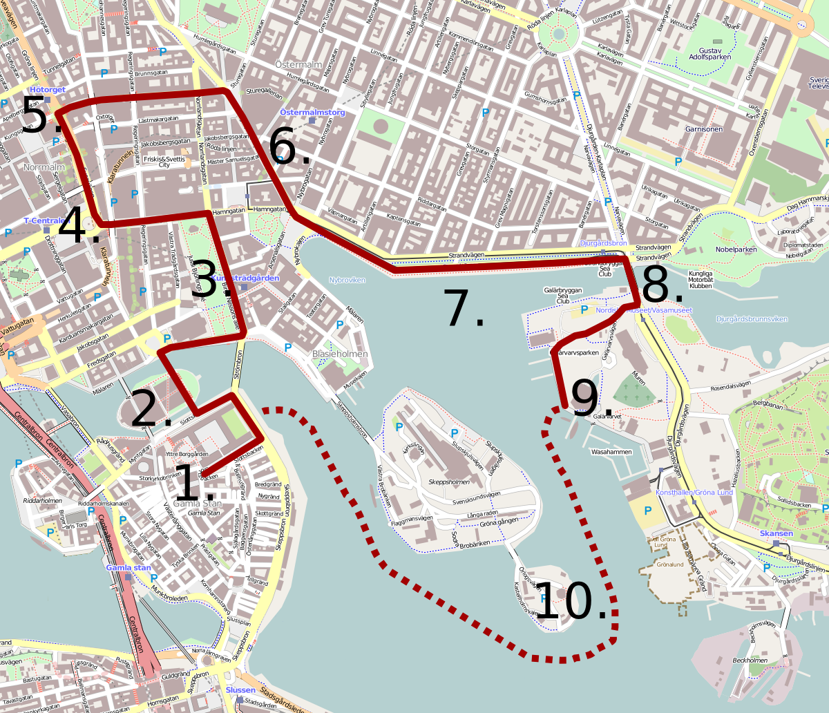 Map of procession way at the wedding of Crown Princess Victoria of Sweden and Mr Daniel Westling (Prince Daniel of Sweden) on June 19, 2010.